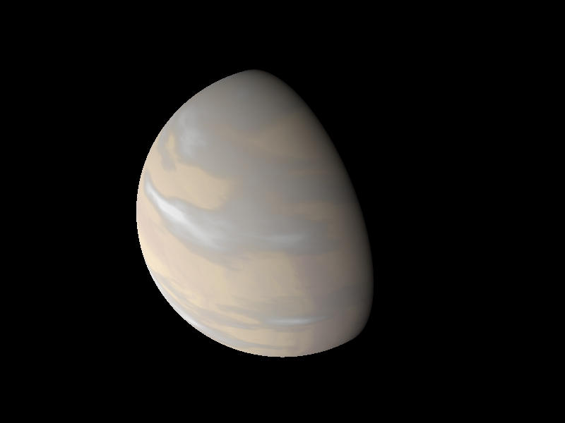 Artist impression of imaginative desert planet.